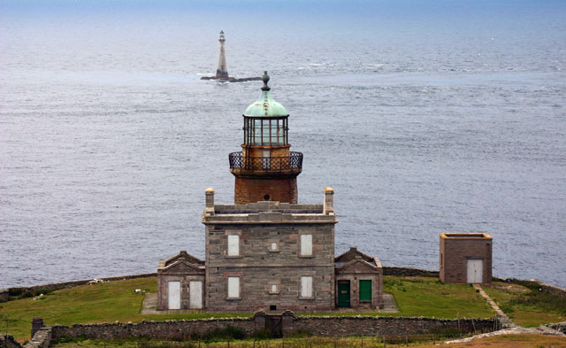 Calf of Man: lower lighthouse (with Chicken Rock behind) In 1794 a Mr Colquhoun suggested a double light so that it could be easily distinguished from that of the Skerries. This idea was adopted and the two lights aligned, as is clear from the chart, so that when they appeared one above the other then the Chickens rock was in line between the vessel and the cliff. The two lights would appear as one when viewed from the rocks thus supposedly some estimate of the distance from the rock could be gauged. However one problem was that the higher light often (about 30% time) lies within the mist belt and thus the distance indication is not reliable. The two leading lights were designed by Robert Stevenson in 1816 and the station established in 1818. It comprised two towers, 560 feet apart, aligned to indicate a safe course past the dangerous Chicken Rock. The two lanterns were 375ft and 282ft above sea level and held 'double revolving and leading lights without colour'. The two lights were kept in synchronism by adjusting the clockwork drive. The old lights are now somewhat dilapidated and the handsome keepers' houses ruinous.